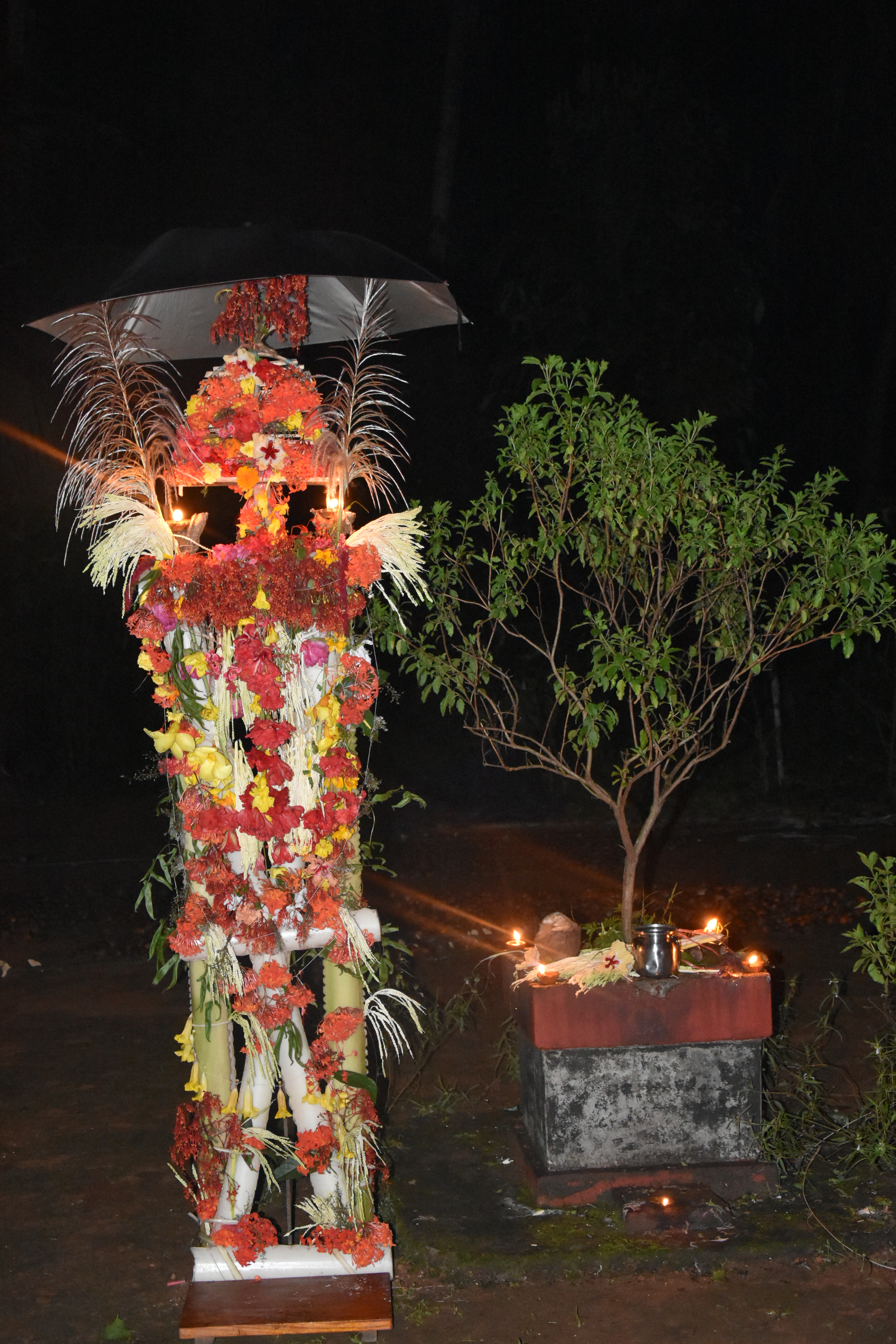 This branch symbolizes Baliyendra, and it is decorated with flower garlands. A flower which grows on rocks and boulders is mainly used. It is called 'paade poo'. Paade means rock and poo is flower. This photo has been taken in the country: India